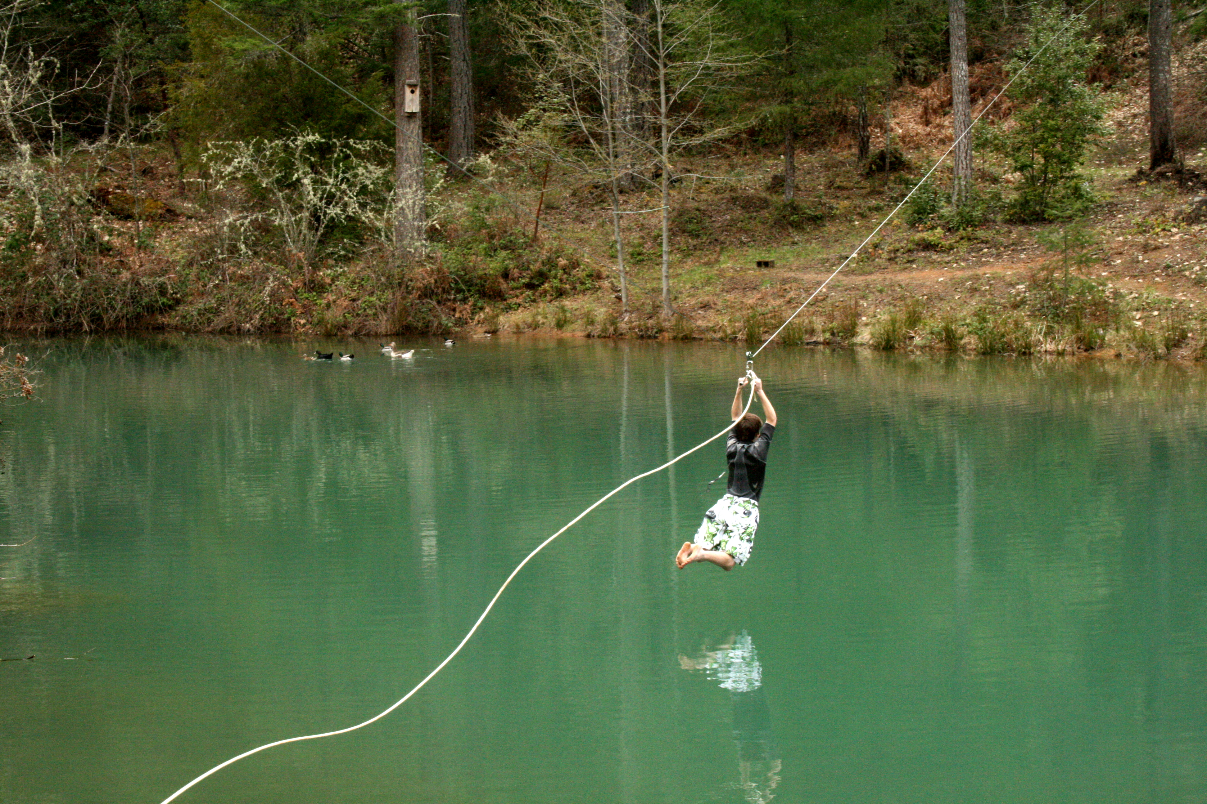 A 200' Mammoth Deluxe zip line installed over a pond.